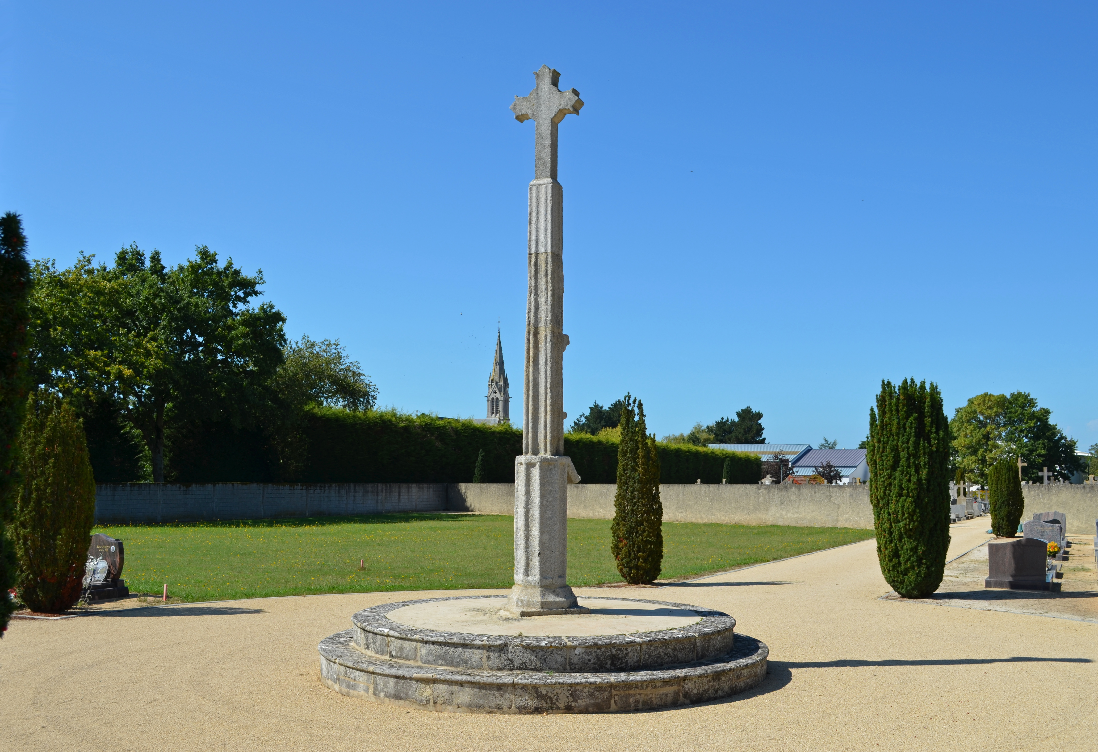 Cemetery cross in Soullans, Vendée, France .